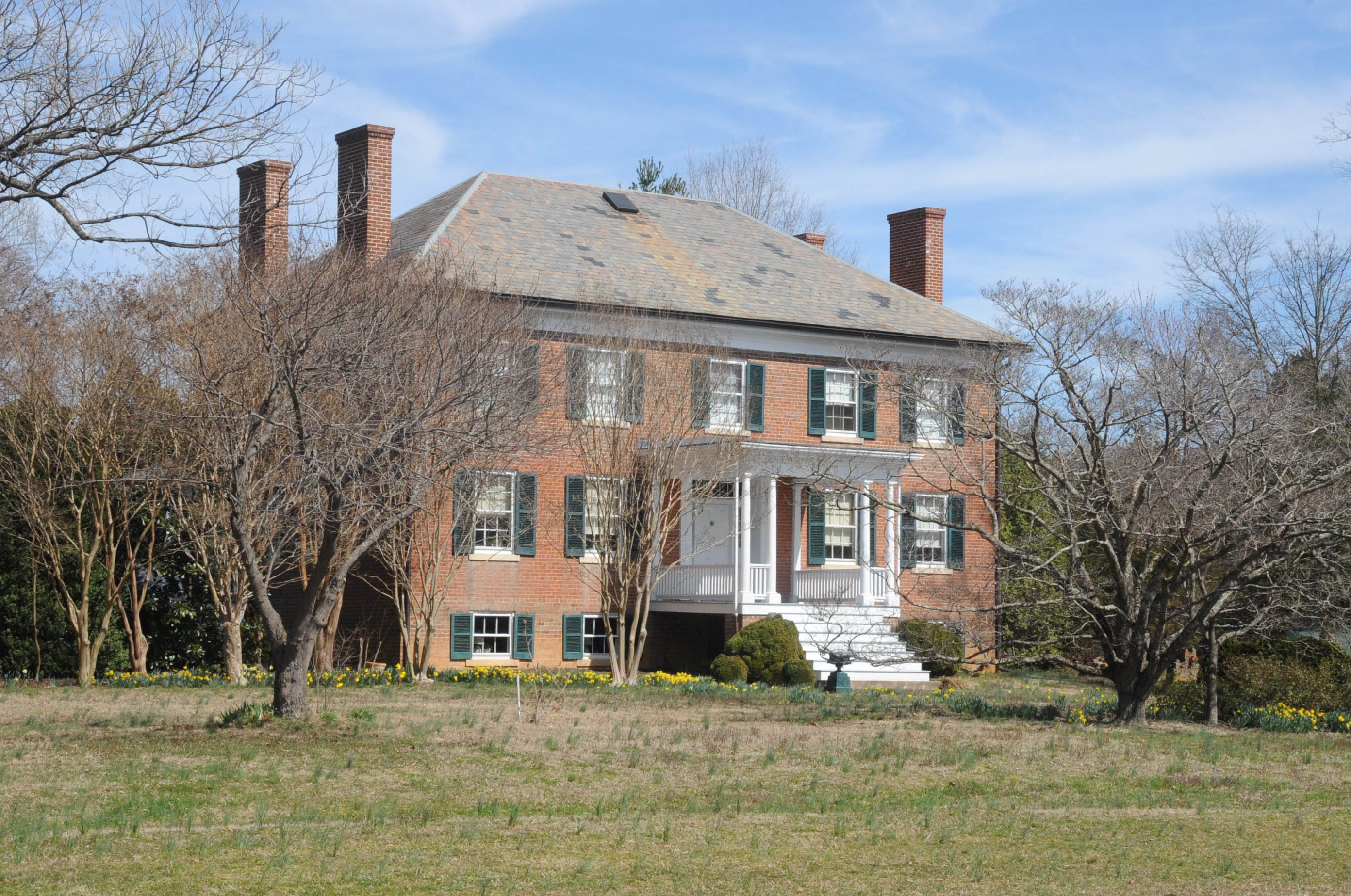 PLANTATION HOME BUILT BETWEEN 1858 AND 1860 IN GREEK REVIVAL AND FEDERAL STYLES